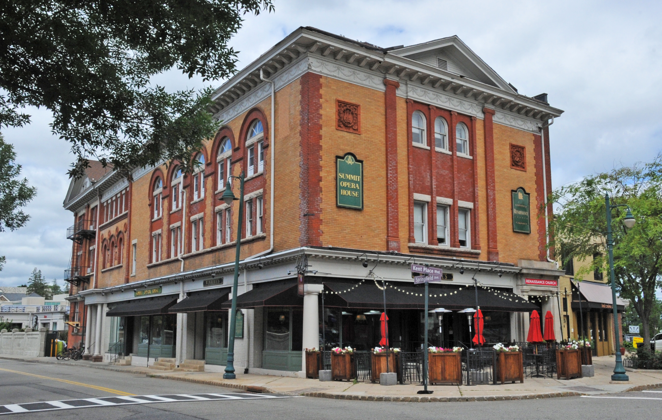 SUMMIT OPERA HOUSE SECOND RENAISSANCE REVIVAL BUILT IN 1893